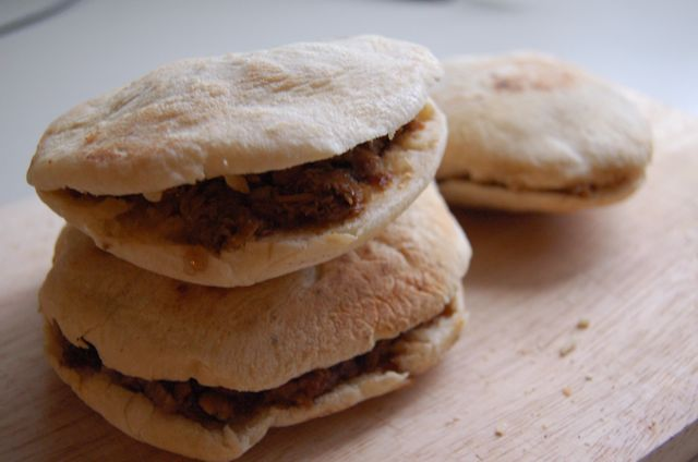 a typical chinese food with meat and boiled bread, from Xi'an, Shaanxi, China